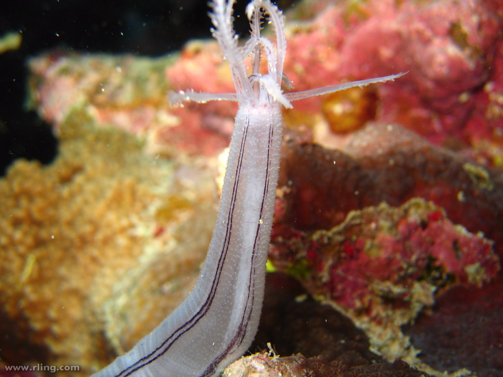 The striped body and feeding tentacles of Lampert's Sea Cucumber (Synaptula lamperti). Steve's Bommie, Ribbon Reefs, Great Barrier Reef